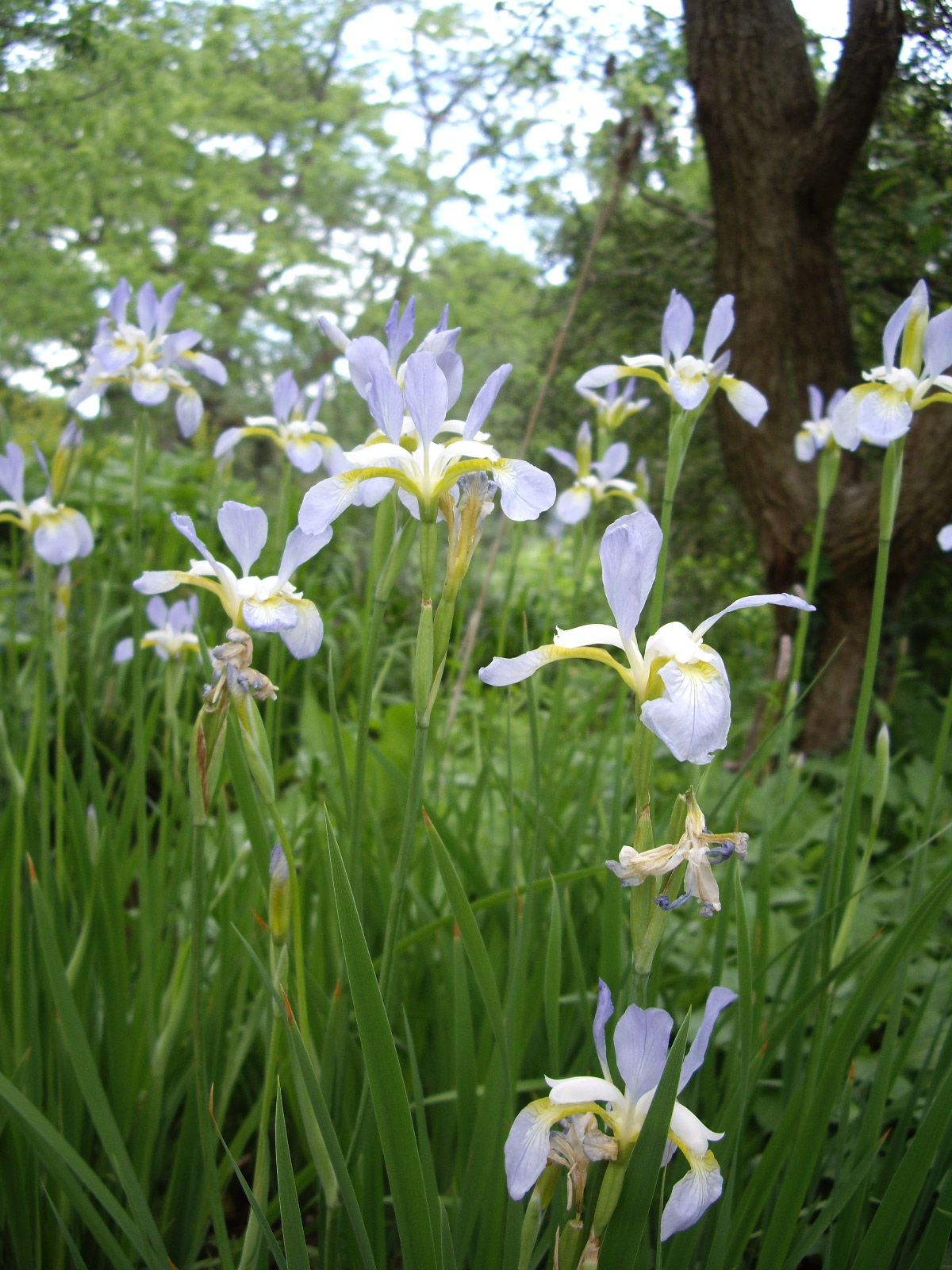 Iris sibirica, "Summer Sky", Germany: Hannover: Schlosspark Herrenhausen, 13 May 2011